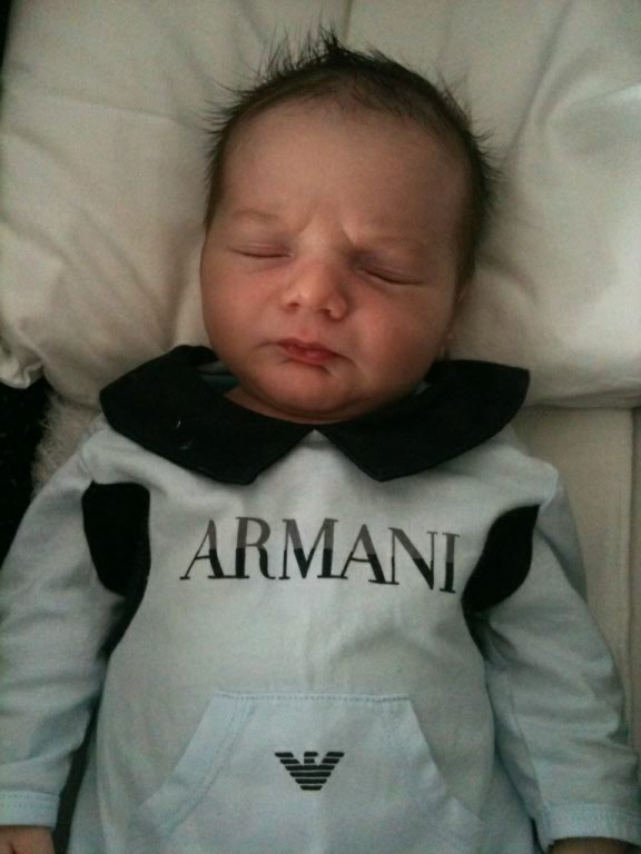 An infant at first month